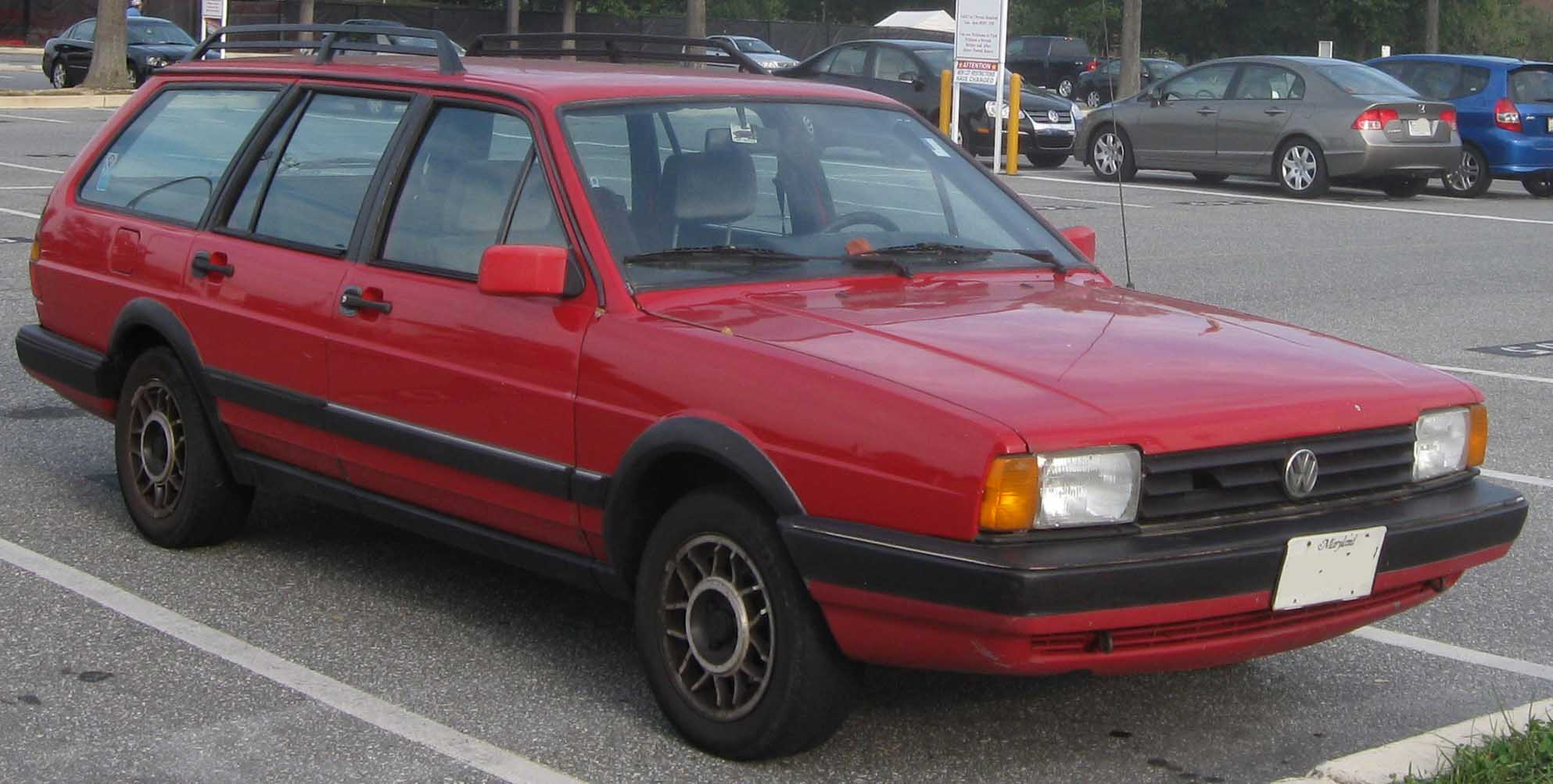 1986-1988 Volkswagen Quantum photographed in College Park, Maryland, USA.